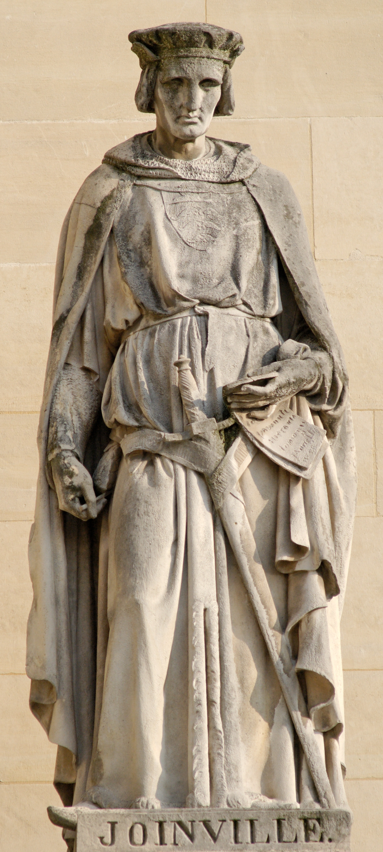 Joinville by Jean Marcellin. Stone, ca. 1853. 8th statue from Pavillon Colbert to Pavillon Sully, Cour Napoléon in the Louvre.